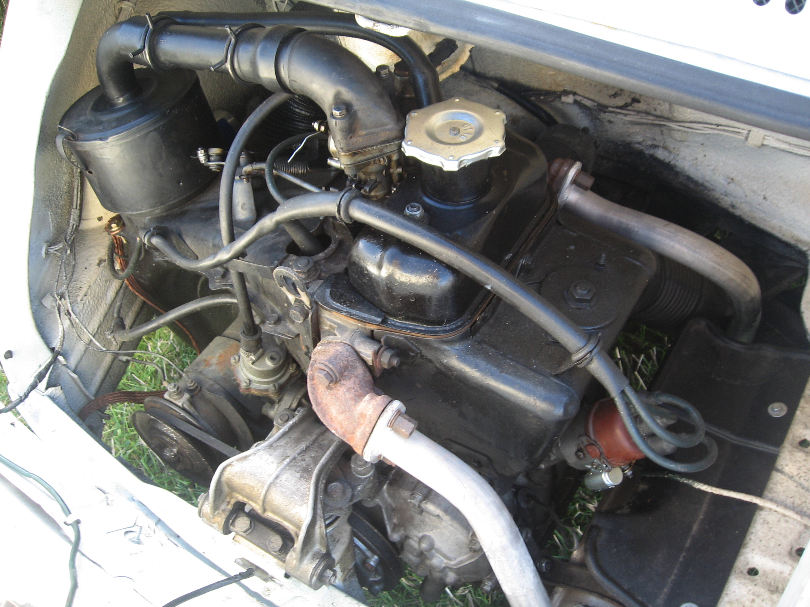 Two-cylinder engine fitted to a Fiat 500